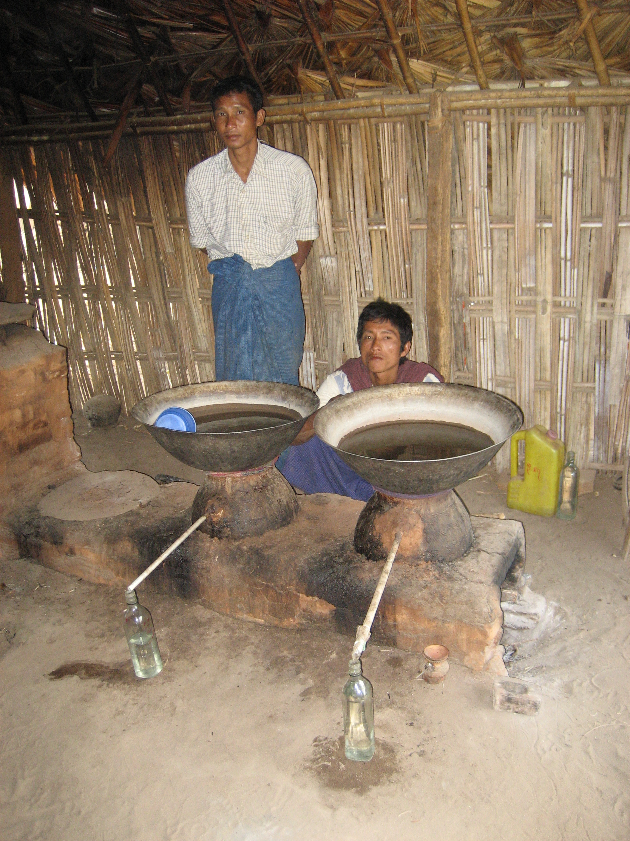 Palm syrup maker outskirts, Bagan Myanmar December 2006